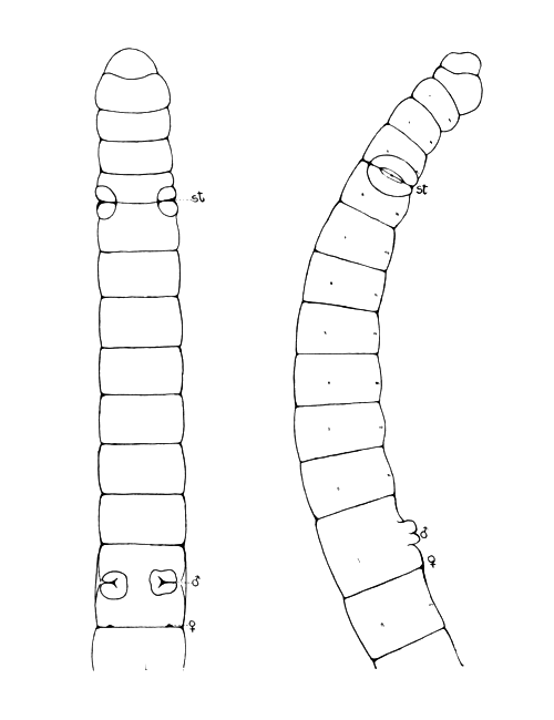 Ventral and lateral view of twelve anterior somites of Mesenchytraeus solifugus (Oligochaeta: Enchytraeidae). st – spermathecal pore at IV–V; ♂ – male pore; ♀ – female pore.